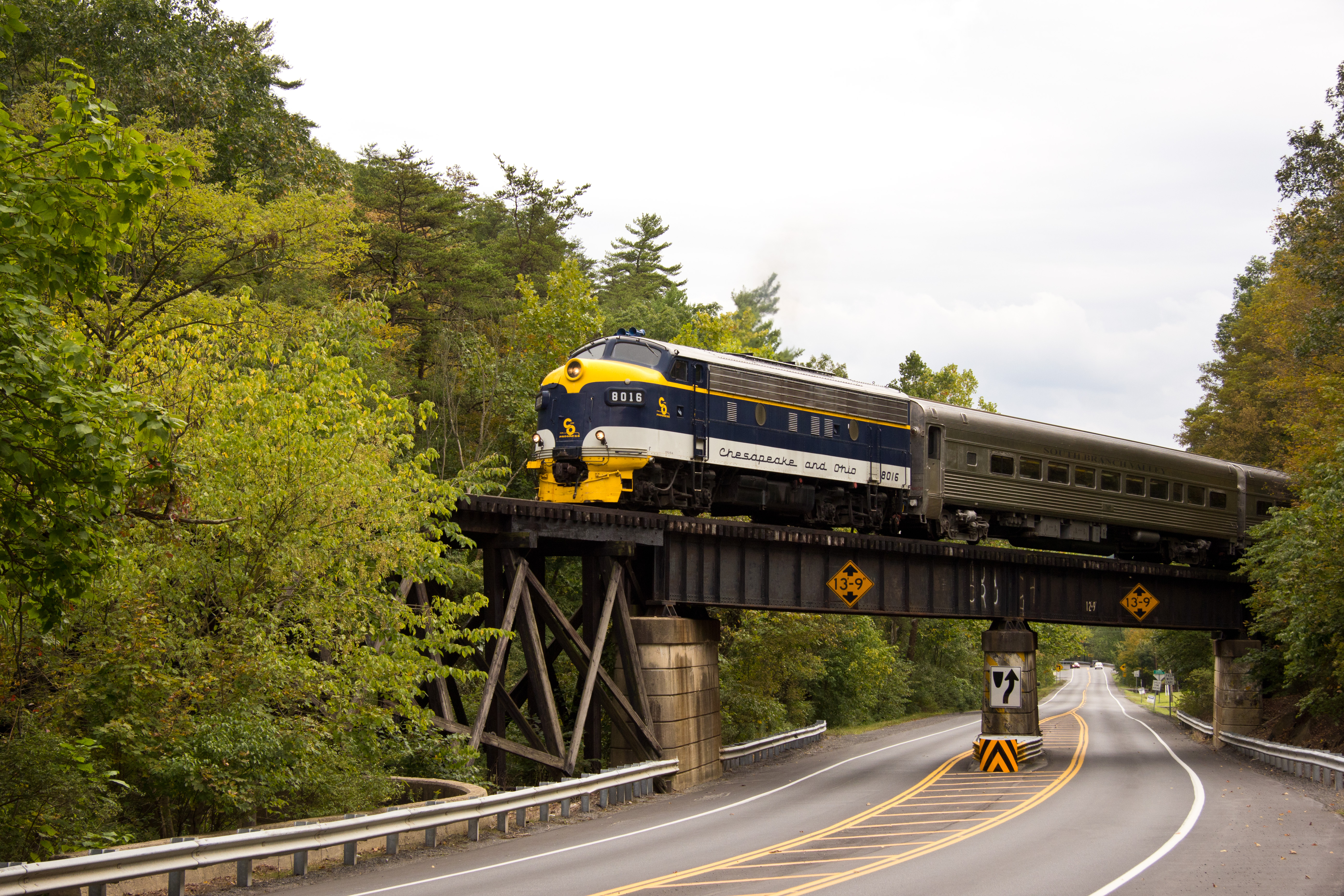 At last weekend's Romney Railroad Days, the Potomac Eagle Scenic Railroad ran special trains north to Green Spring. C&O 8016 leads the train and is headed north crossing Rt 28.